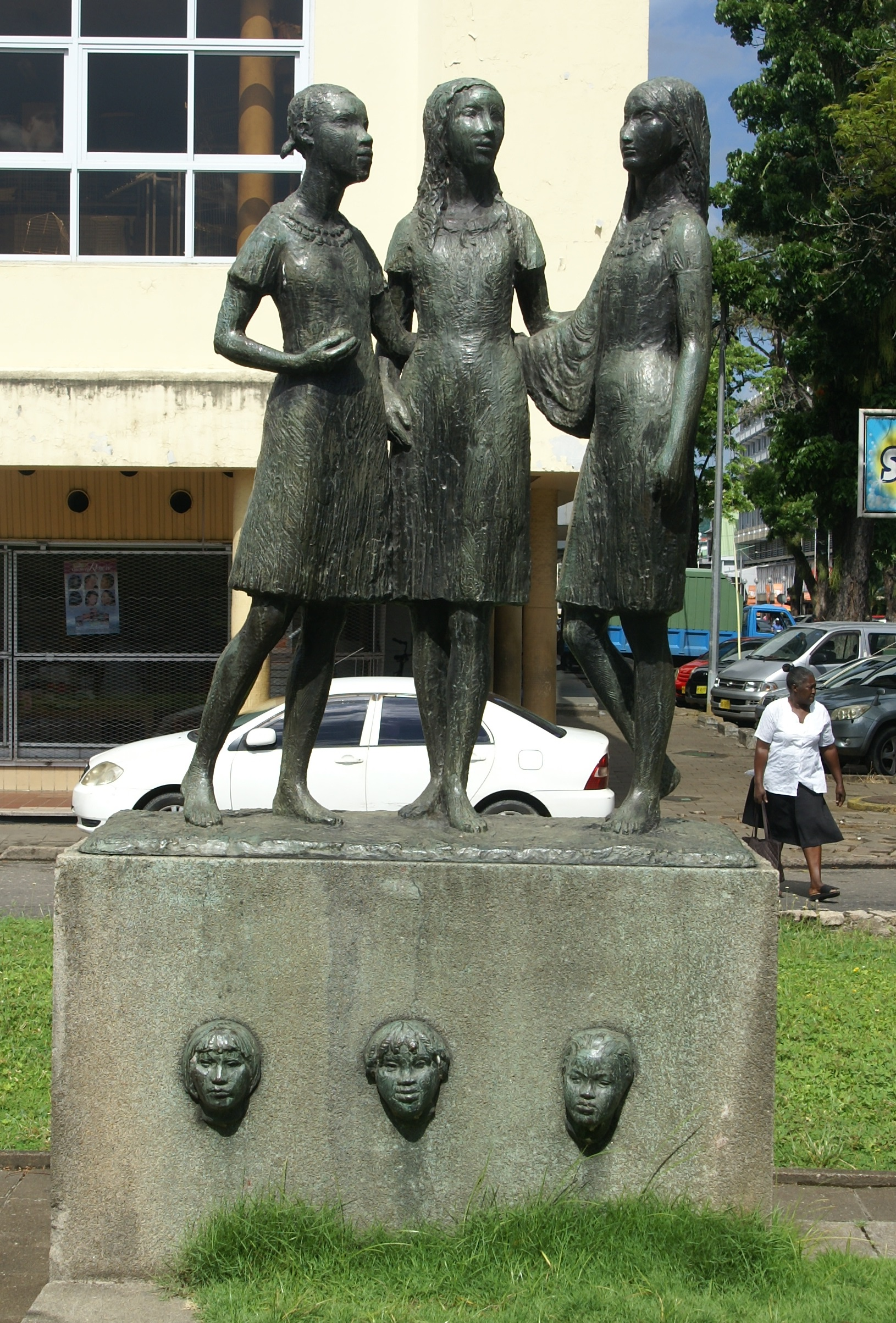 Dankbaarheidsmonument, De Sivaplein, Paramaribo, Surinam. By Mari Andriessen (1955).